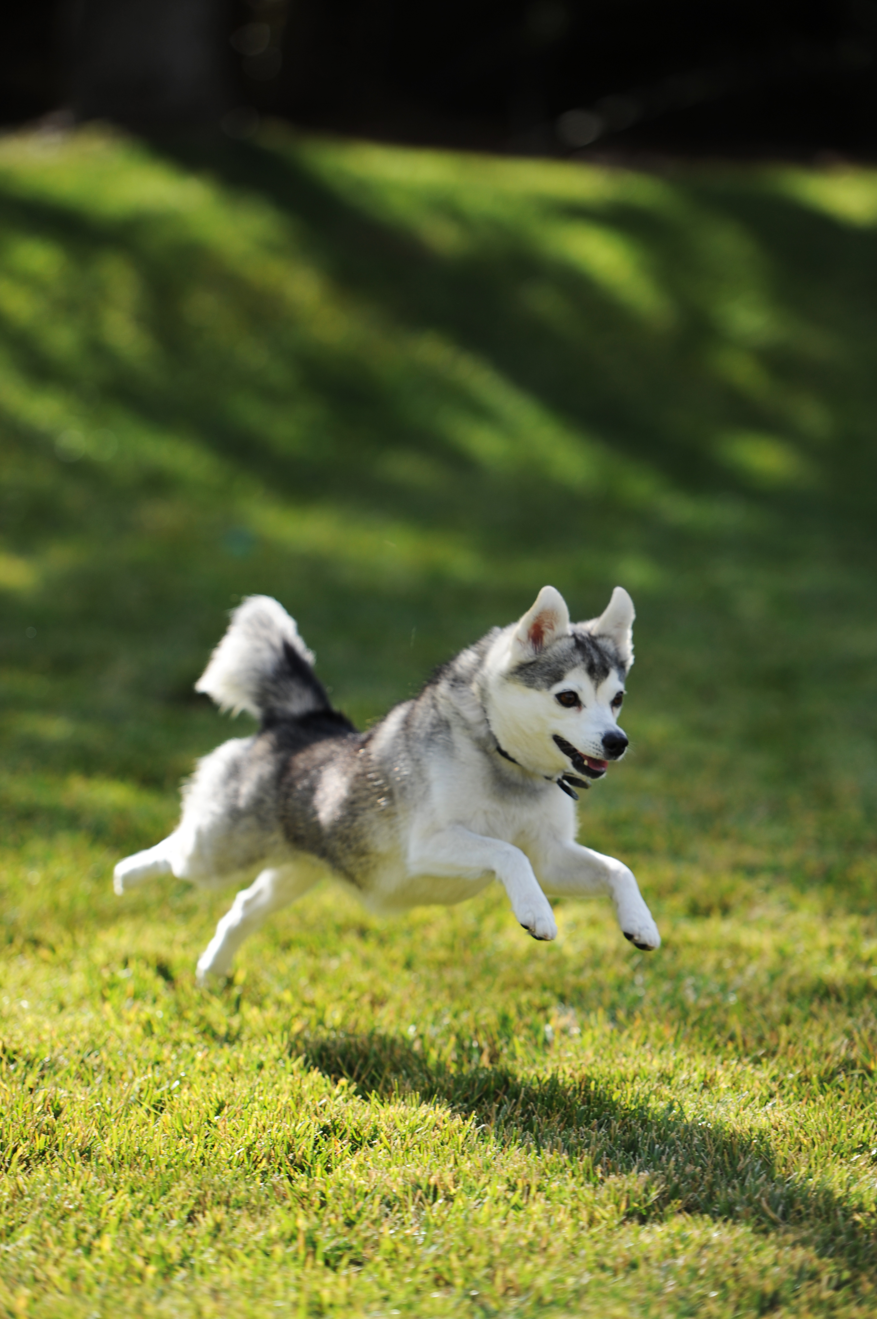 A healthy miniature Alaskan Klee Kai bounding across an open field.